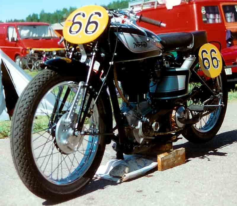 Norton CS 500 cc Racer 1947